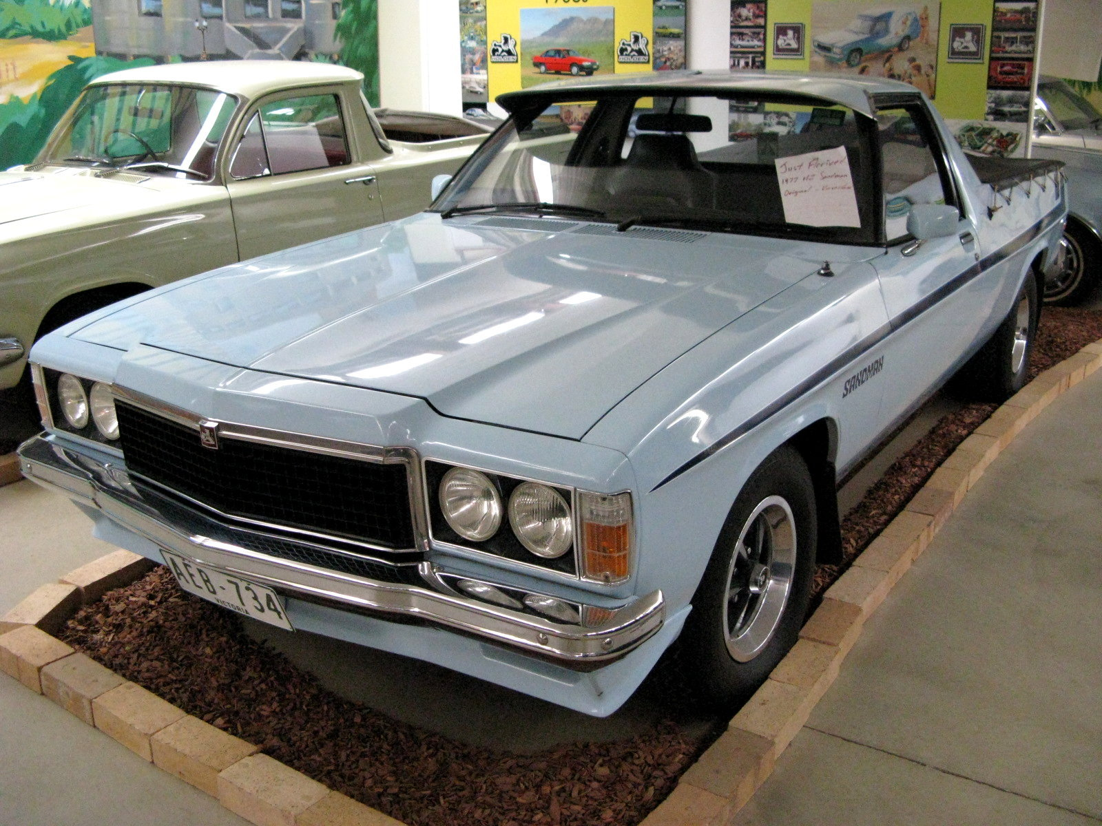 1977 Holden HZ Sandman Ute